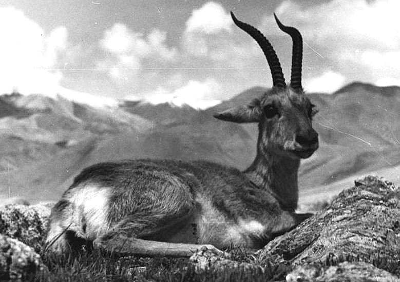 A Tibetan Gazelle, or Goa